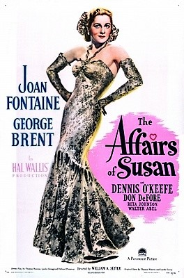 Poster del film The Affairs of Susan